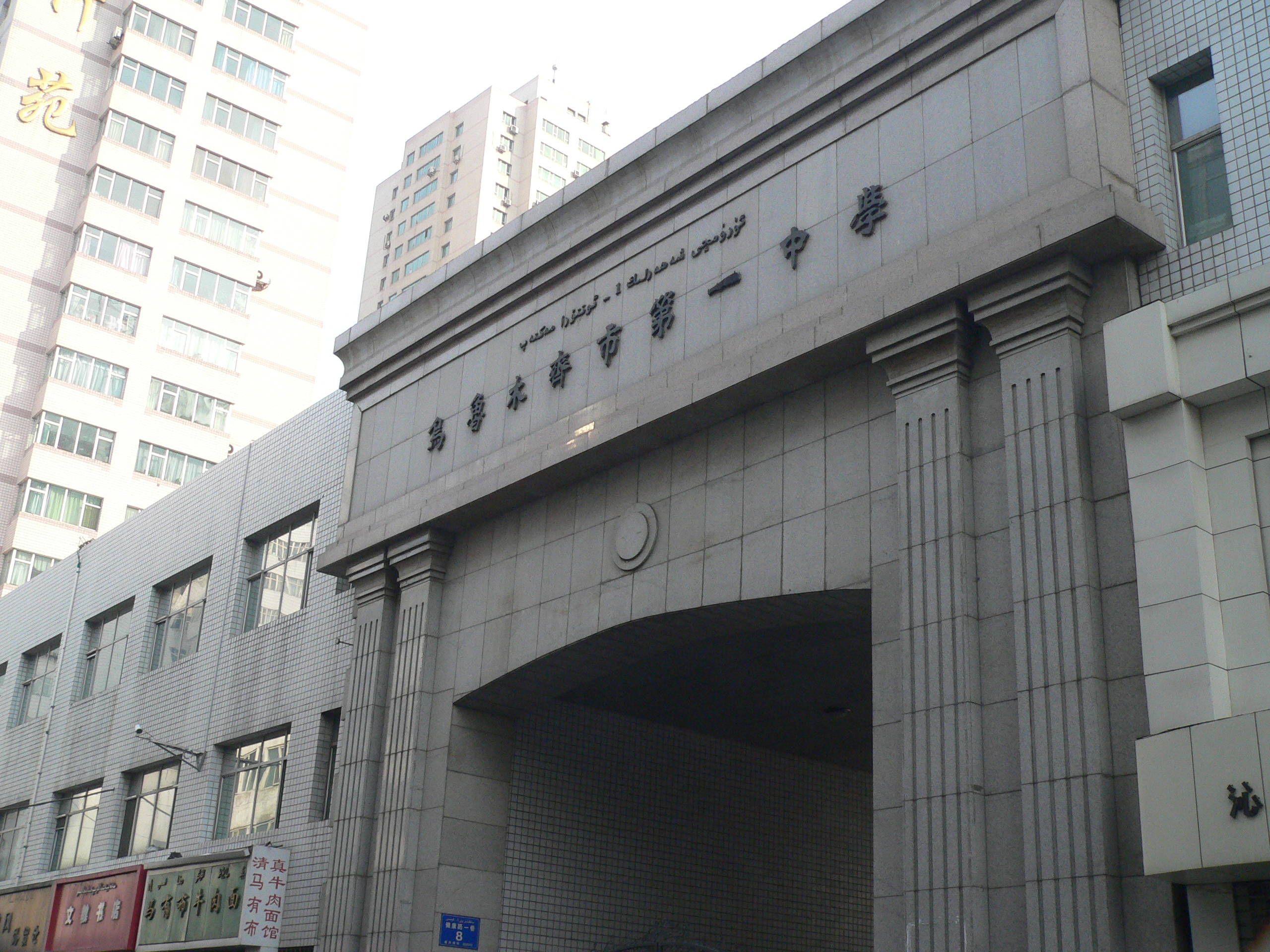 乌鲁木齐市第一中学前门 解放北路